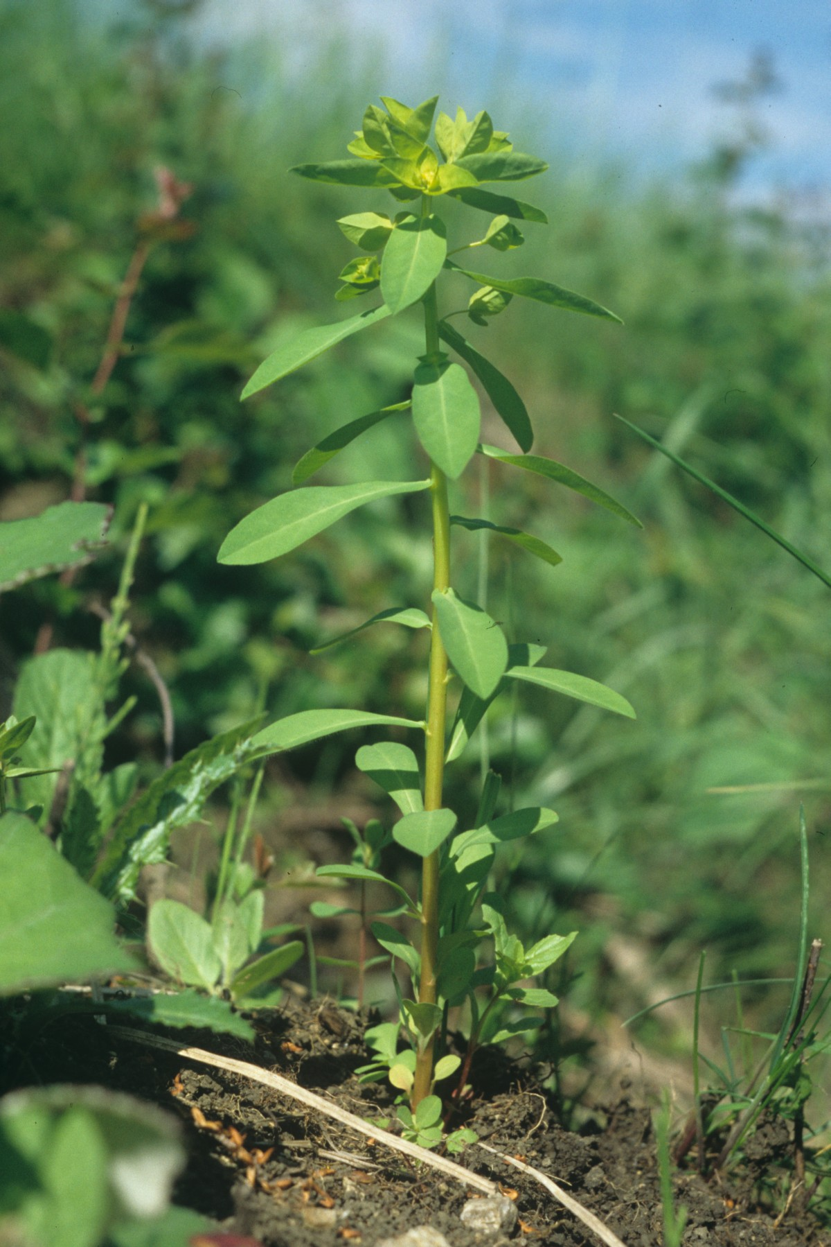 Euphorbia platyphyllos L. Jena, Germany